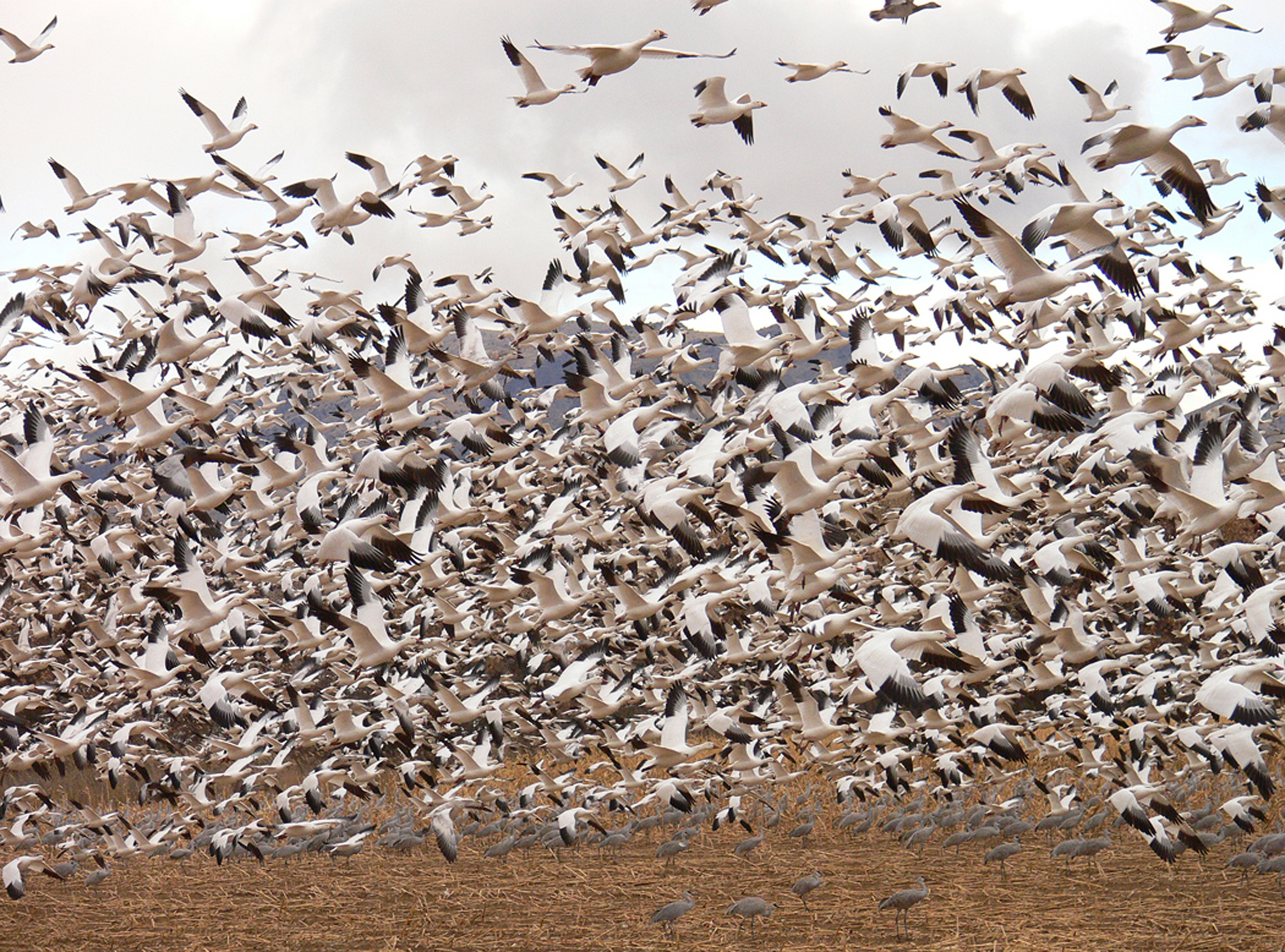 Snow geese take to the sky at Bosque del Apache National Wildlife Refuge in New Mexico. (Lee Karney/USFWS).